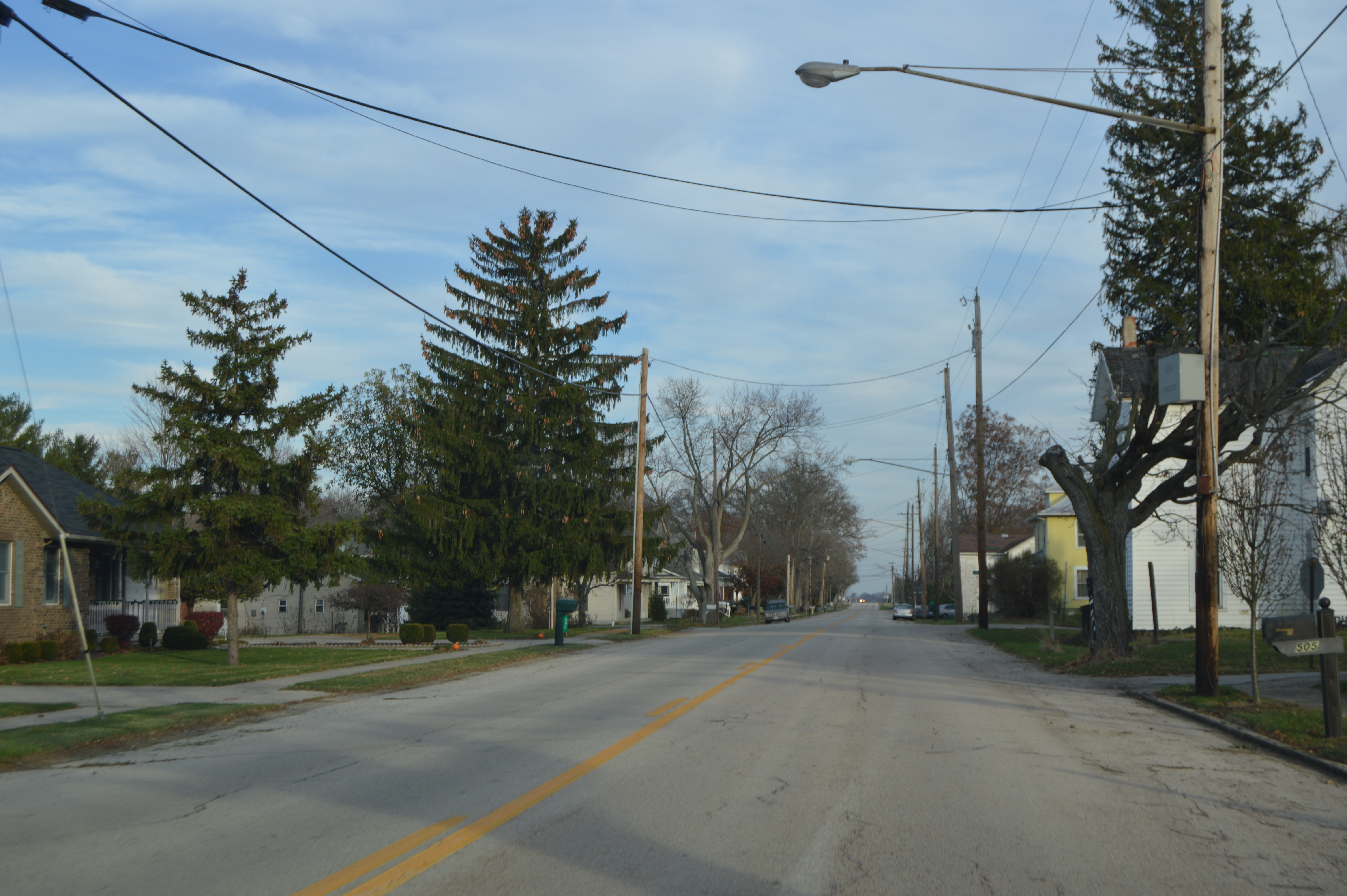 Looking eastward on North Street (State Route 722) west of the Railroad Street intersection in Gordon, Ohio, United States.